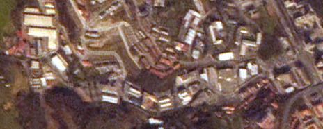 Igara, Donostia, Gipuzkoa, Basque Country